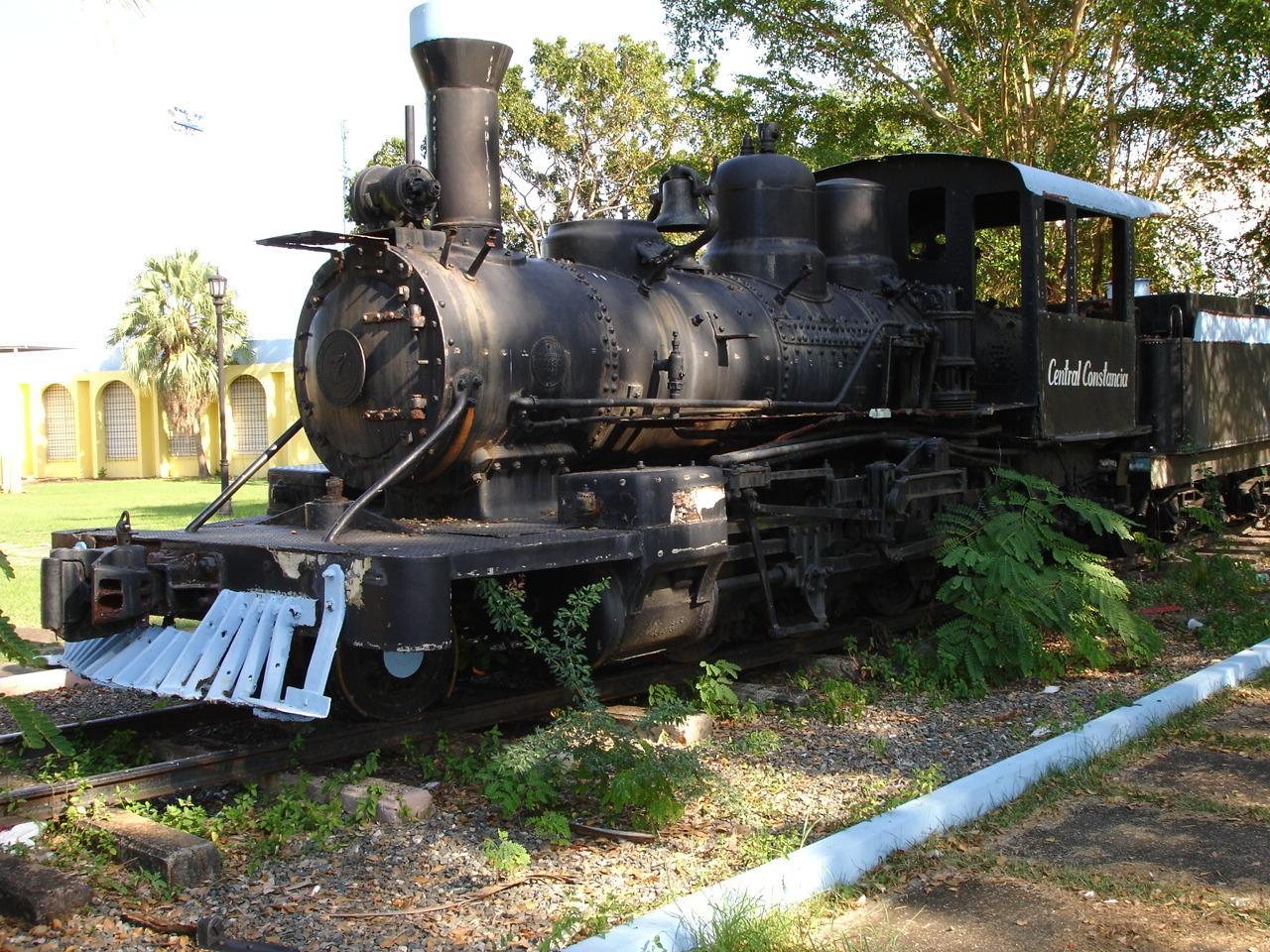 Baldwin 60180 (#7) 2-8-0 10-22E-110 class locomotive built in 1927 for Central Constancia in Puerto Rico. Currently a static exhibit in Levittown, Toa Baja, Puerto Rico.